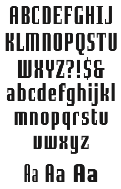 Reflex typeface by Aleš Najbrt with Marek Pistora